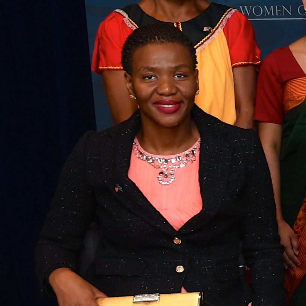 Malebogo Molefhe, Human Rights Activist [State Department photo/ Public Domain]